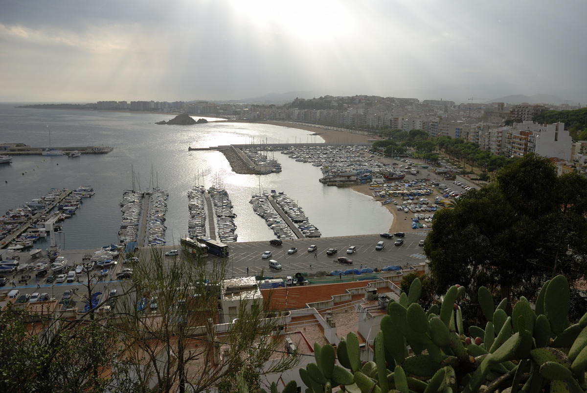 Blanes, Spain